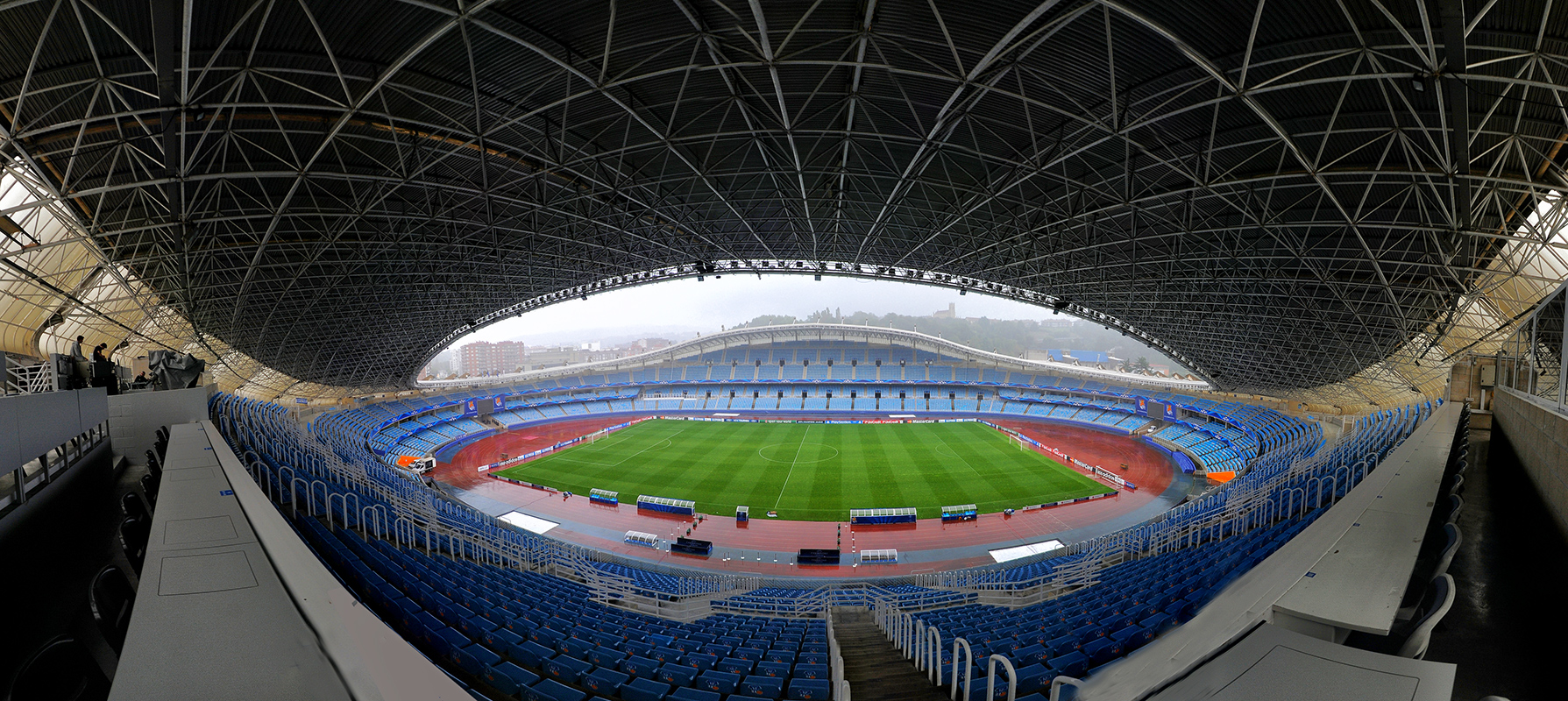 Anoeta Stadium in Donostia-San Sebastián, Basque Country, Spain